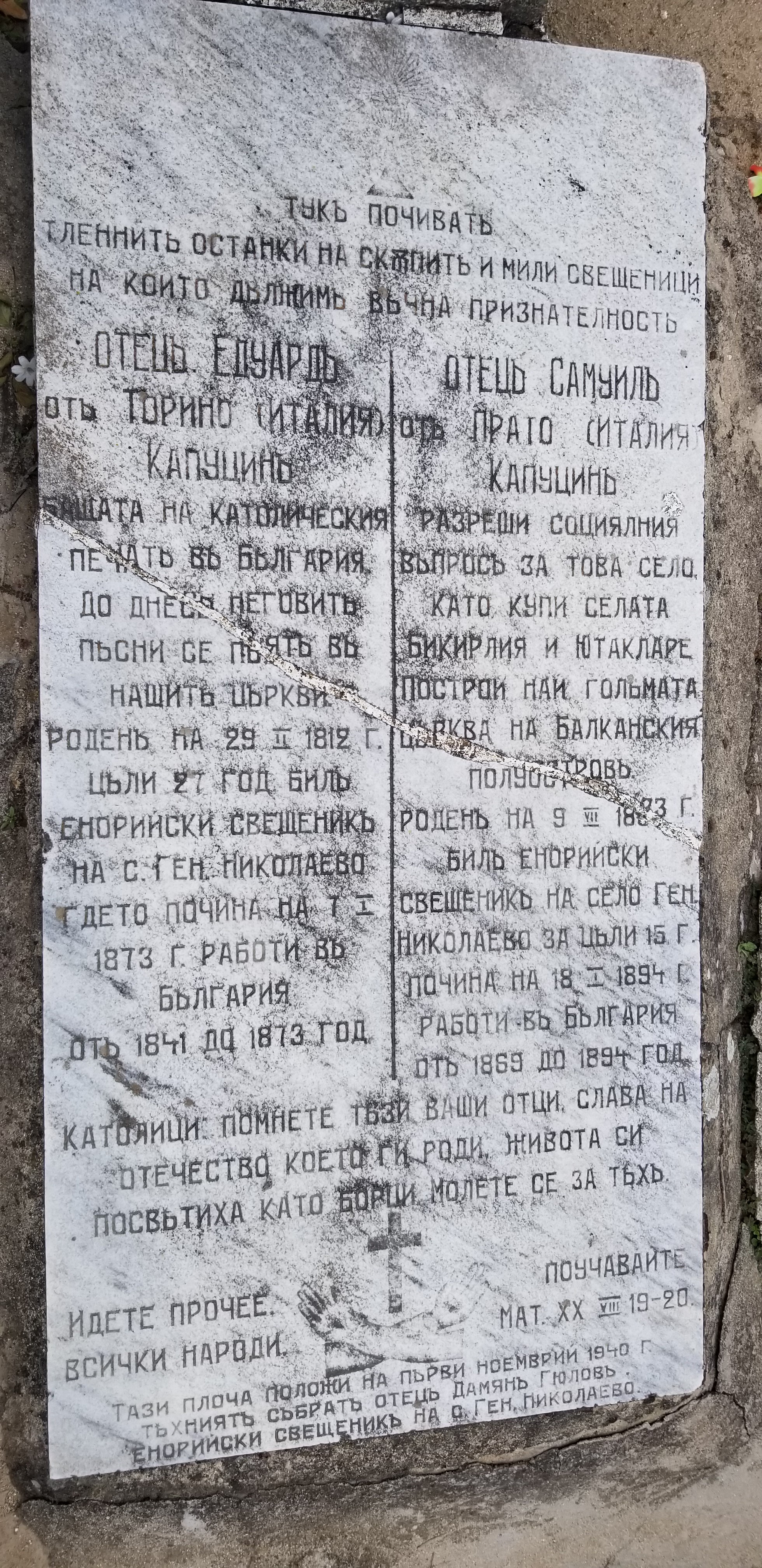 Memorial Plaque of fathers Eduardo and Samuil in Rakowski